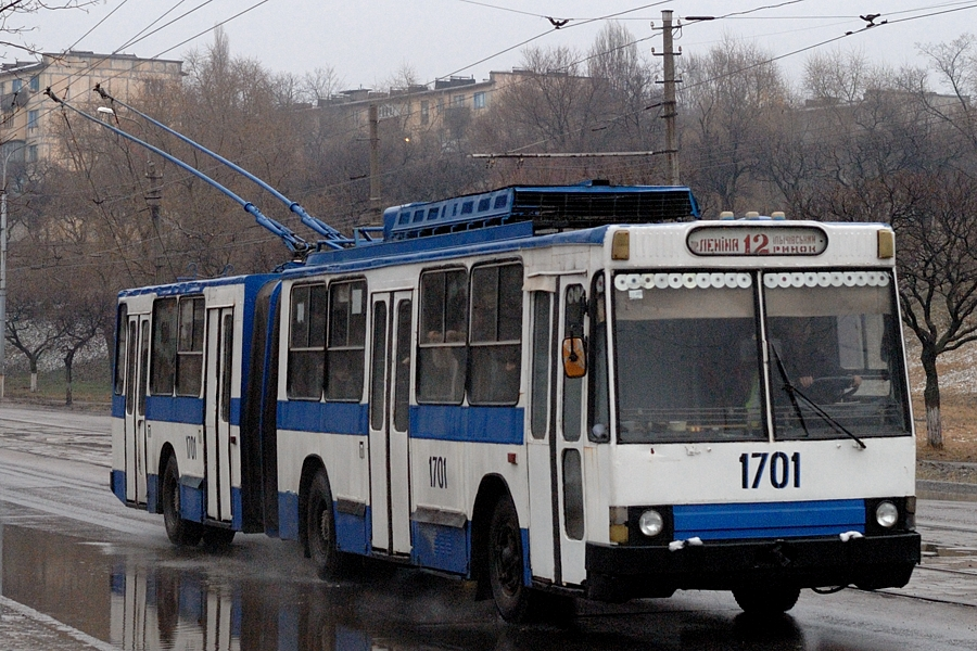 YuMZ T1 1701 in Mariupol